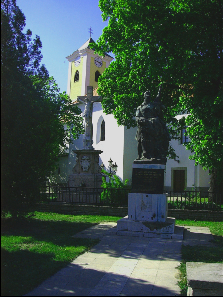 Church_Bajna